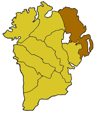 Catholic Diocese of Down and Connor.